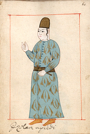 Page — "Izolan aqildi(?)" (Pictures from the Ralamb Costume Book, 1657)